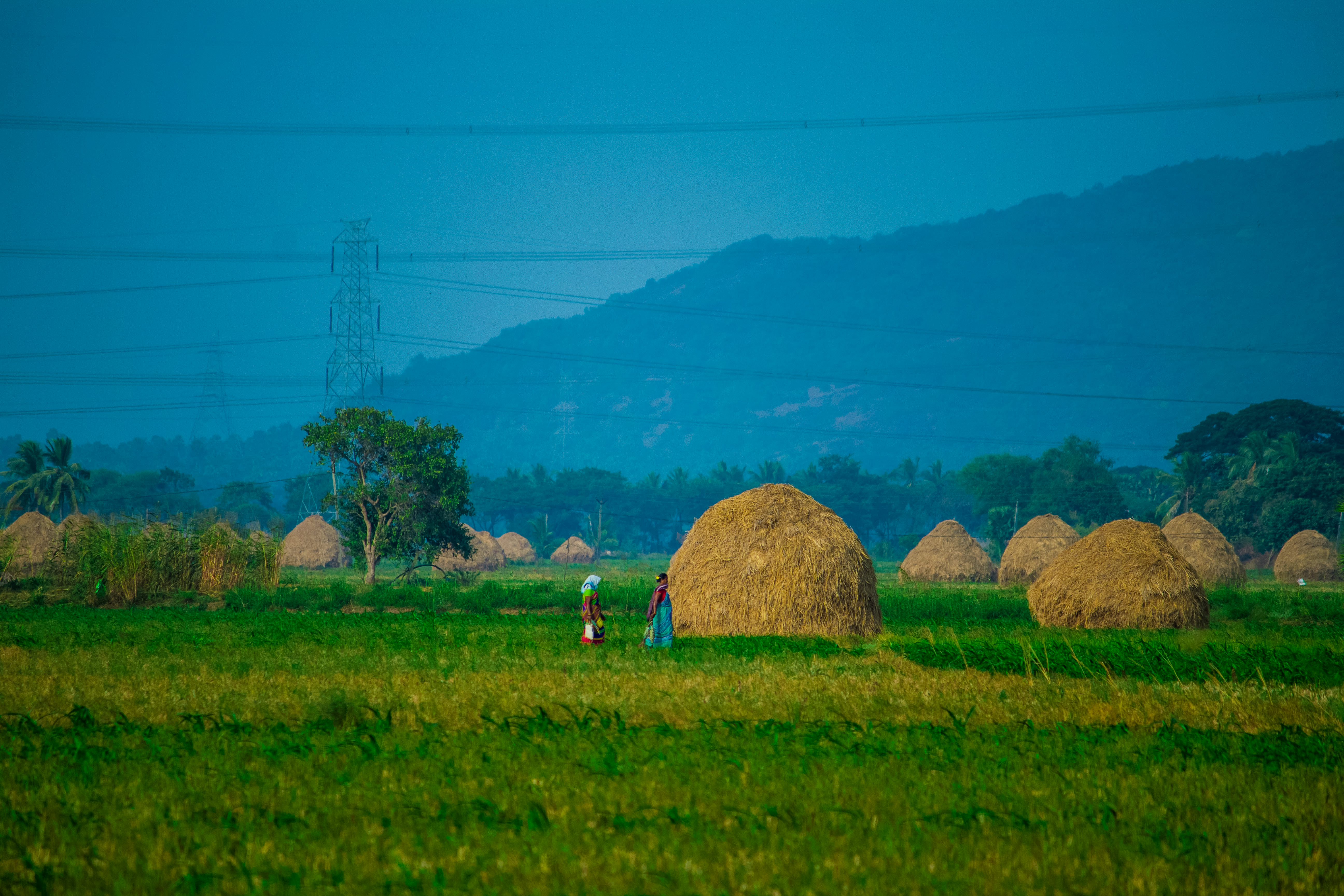 Paddy Fields near Kunavaram, East Godavari